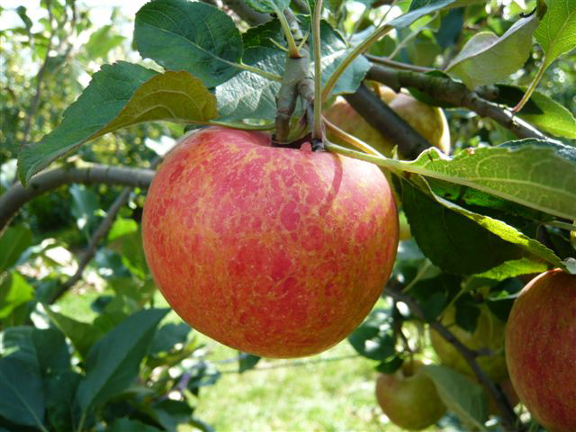 french apple Antares